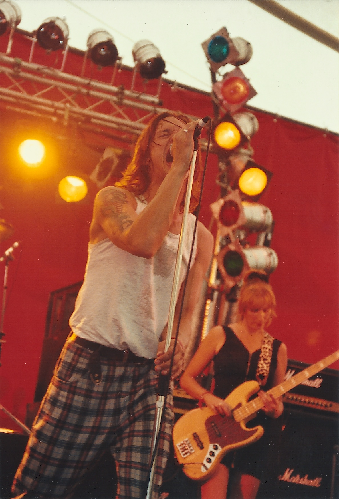 Crazyhead, Abbey Park, Leicester, 1995 Greg Neate